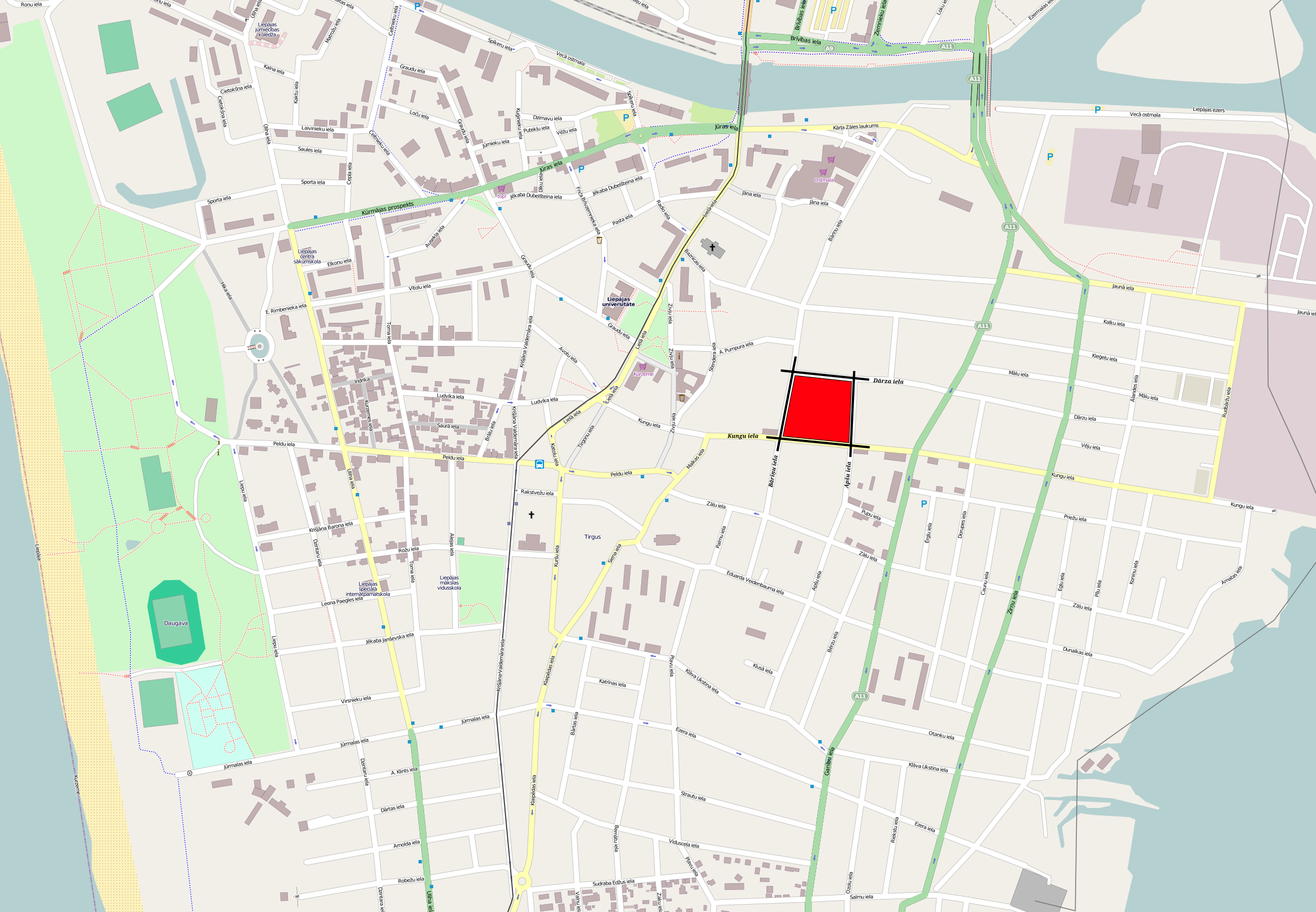 Location of the jewish Ghetto (1942/1943) in Liepāja